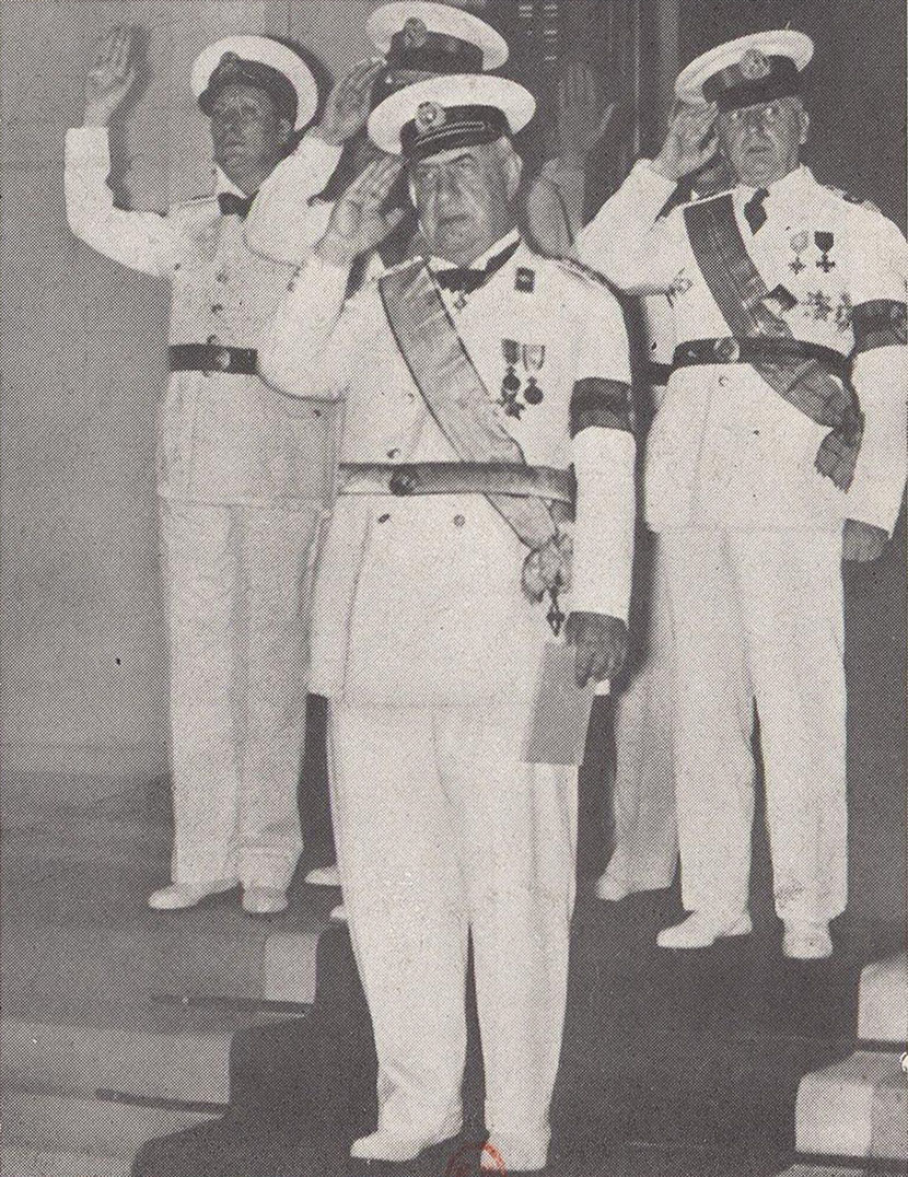 Constantin Argetoianu in NRF uniform. 1939